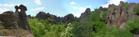 A panorama of the Belogradchik Rocks, Bulgaria. Author: Philip Philipov